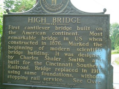 High Bridge Historical Marker (2), Taken by JD Mackiewicz